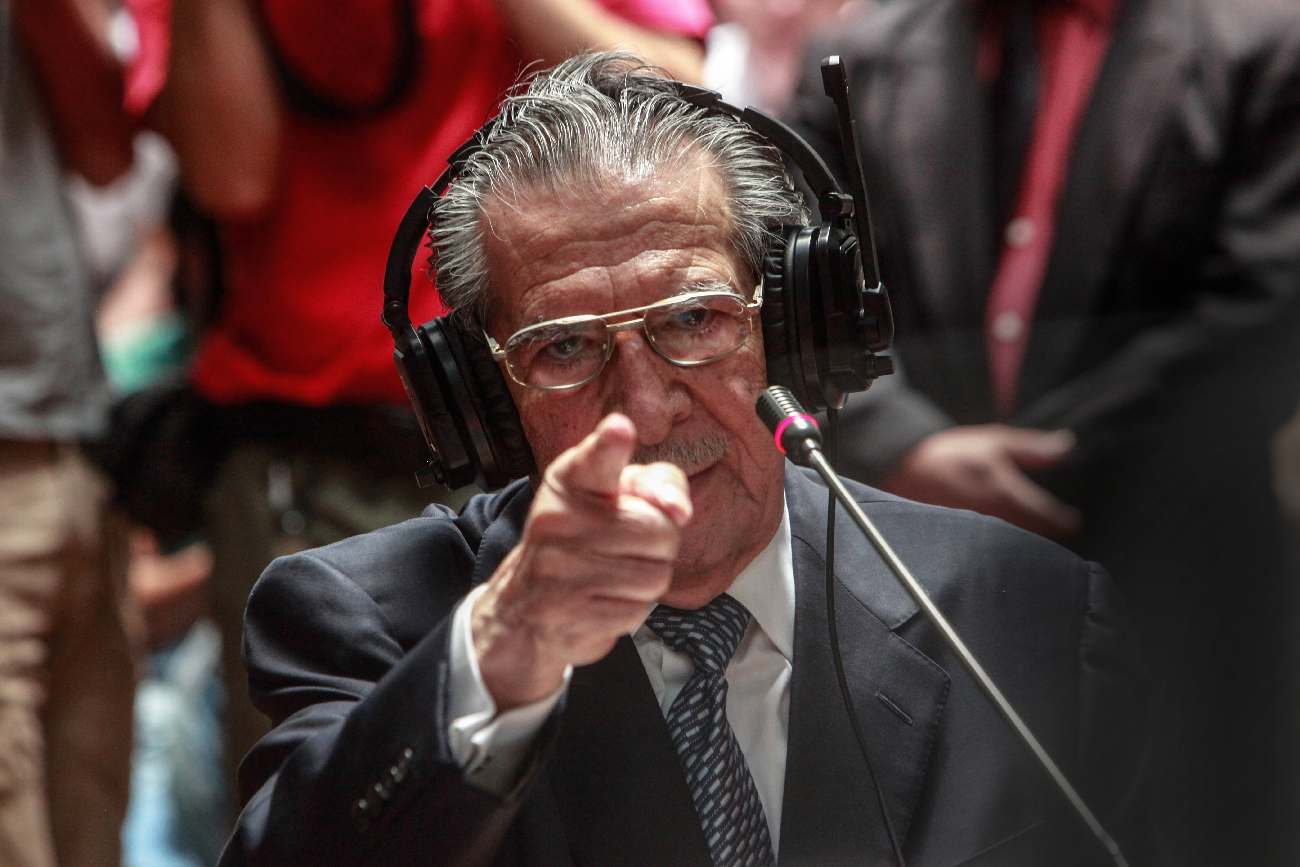 Ex General Efrain Rios Montt testifying during the trial. He declared himself innocent: “I am innocent. I never had the intention of destroying any national ethnic group. My role as head of State was specifically to bring the nation back on track, after it had gone astray.” Photo: Elena Hermosa.